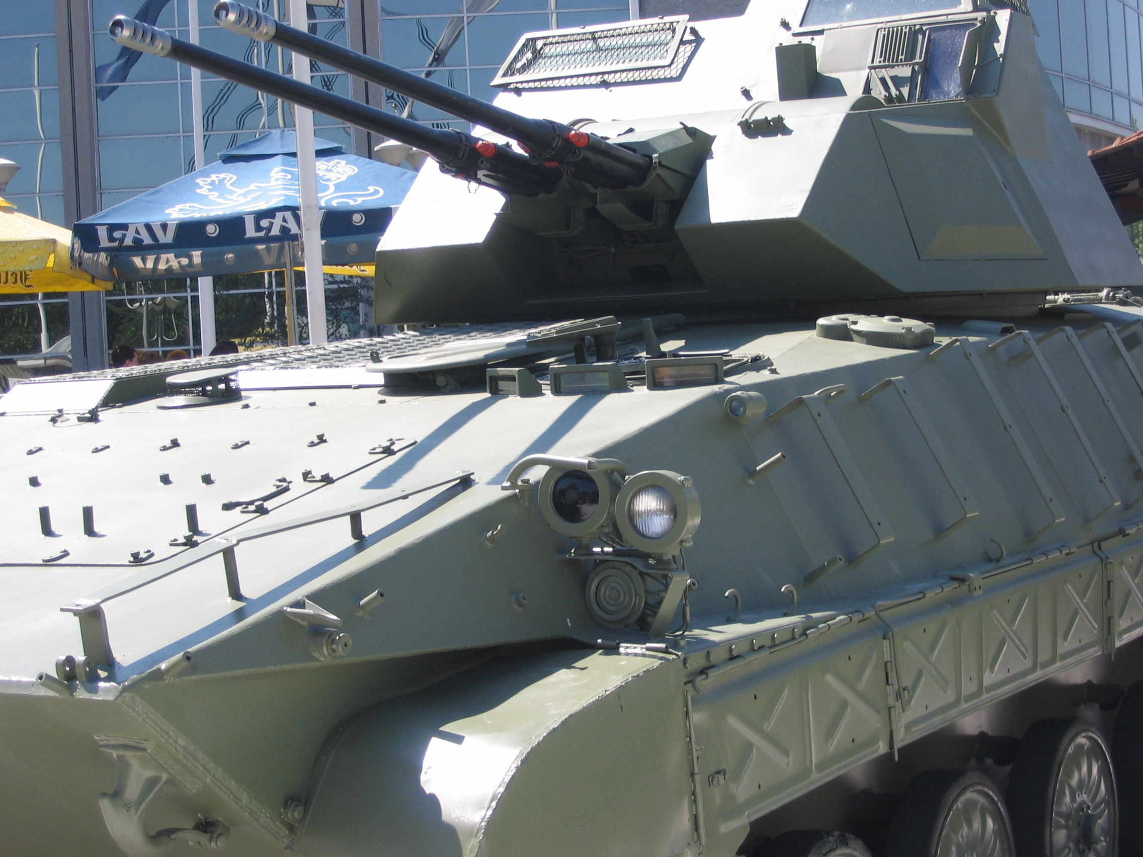 Serbian modification of M-80A IFV with AAA guns.